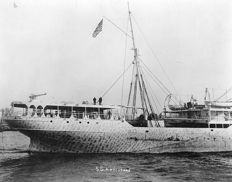 SS Kroonland (American Passenger Steamer, 1902) View of the ship's after portion, starboard side, in November 1917. She is painted in Mackay system low-visibility camouflage and has a gun mounted atop her after deckhouse. This ship served as USS Kroonland (ID # 1541) in 1918-1919. Courtesy of the International Mercantile Marine Company. U.S. Naval Historical Center Photograph.